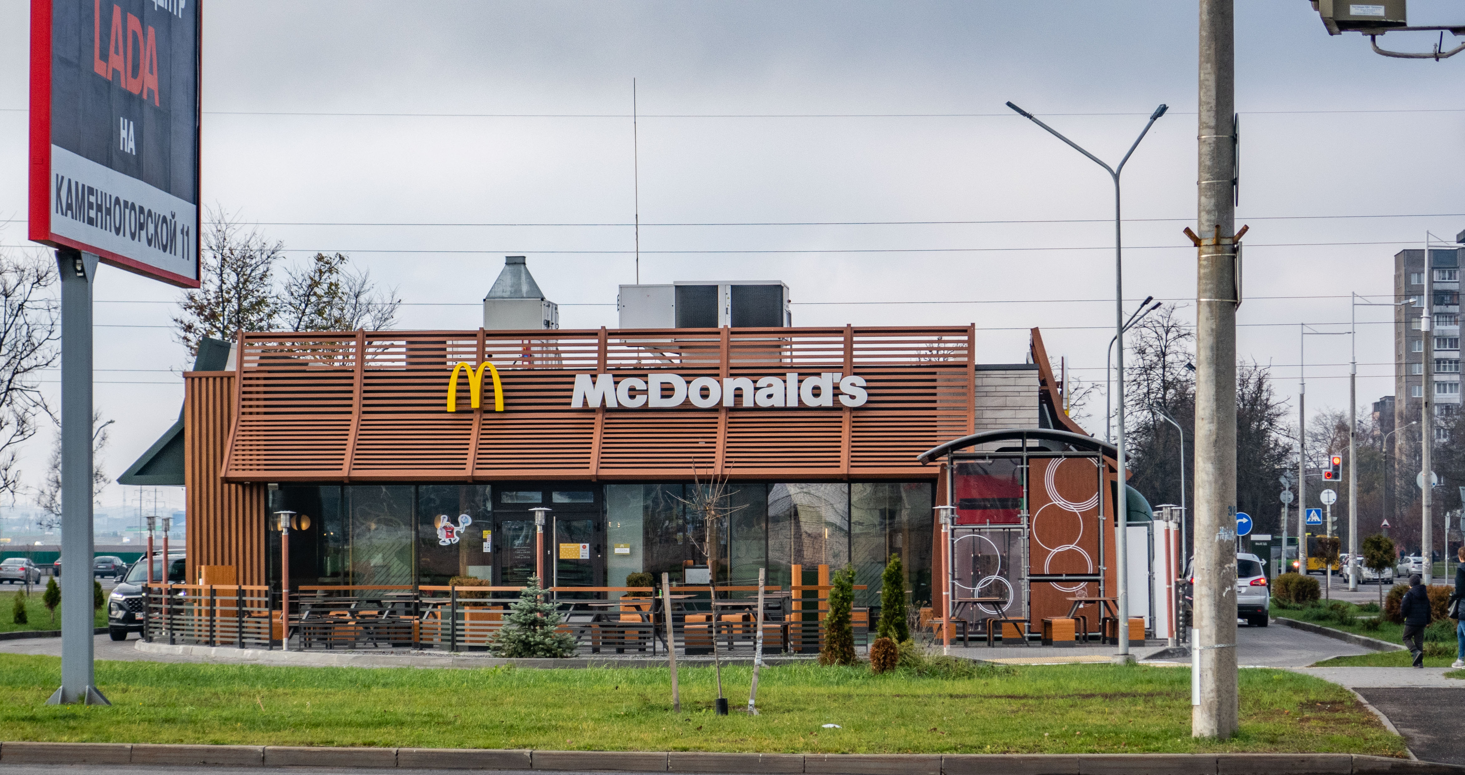 McDonald's restaurant in Čyžoŭka. Minsk, Belarus